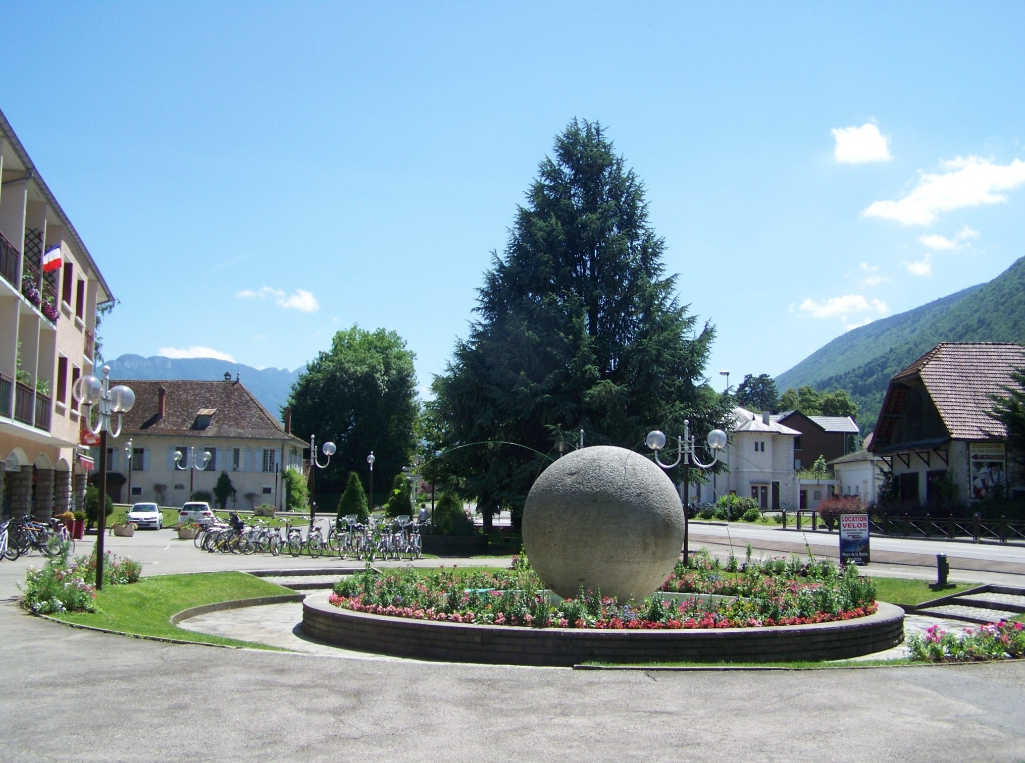 Sight of Place de la Mairie (city hall place) of city of Sevrier near Annecy in Haute-Savoie, France.